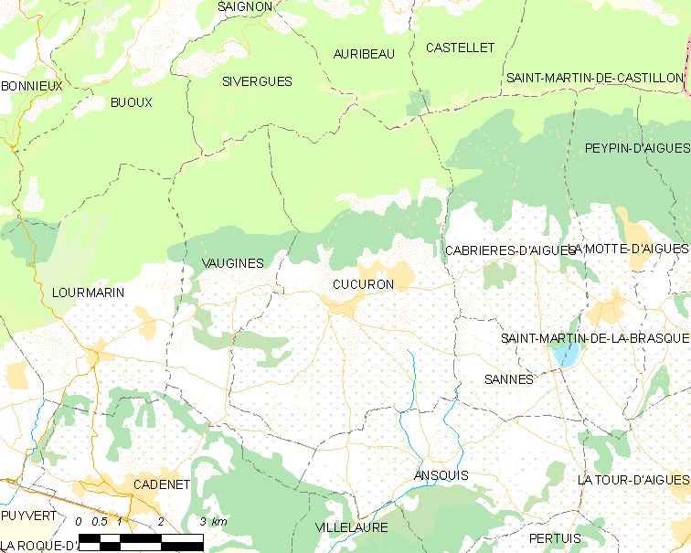 Map of French municipality Cucuron